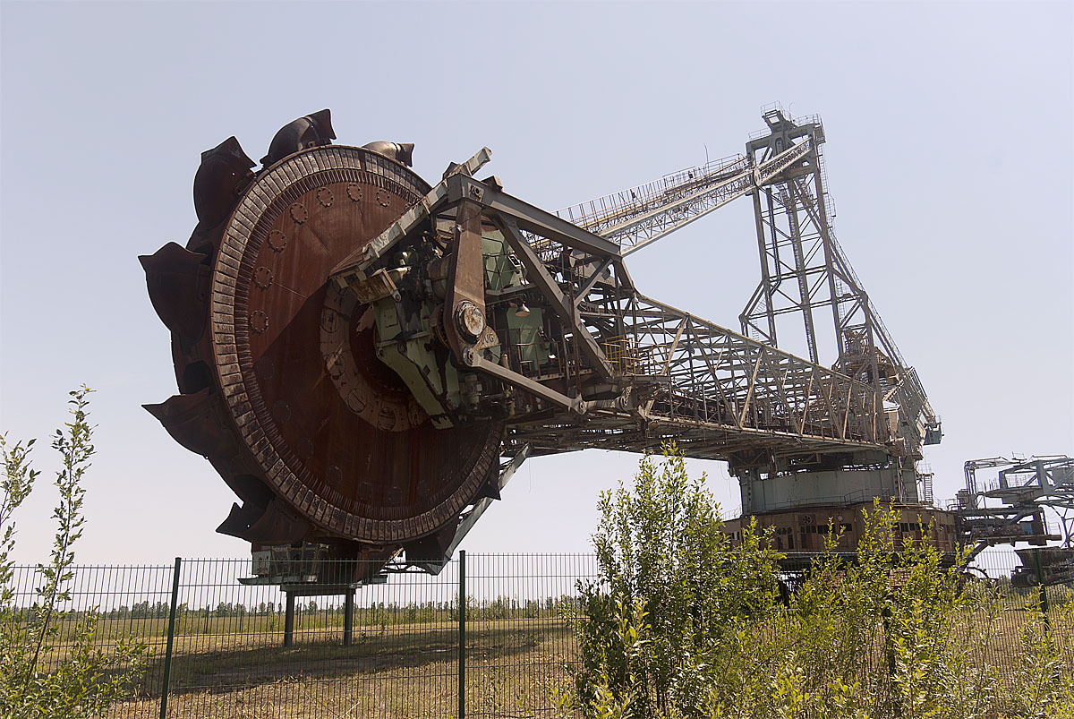 Bucket-wheel excavator SRs 1500 in Hörlitz